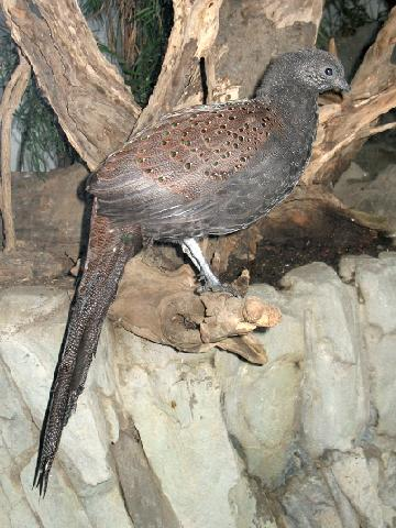 Description: Mountain Peacock Pheasant - Source: own work - Location: Bronx Zoo, New York - Author: self, User:Stavenn